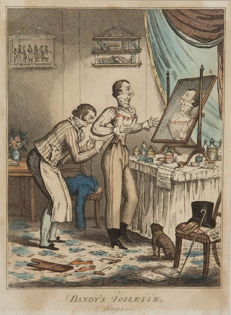 Color engraving.